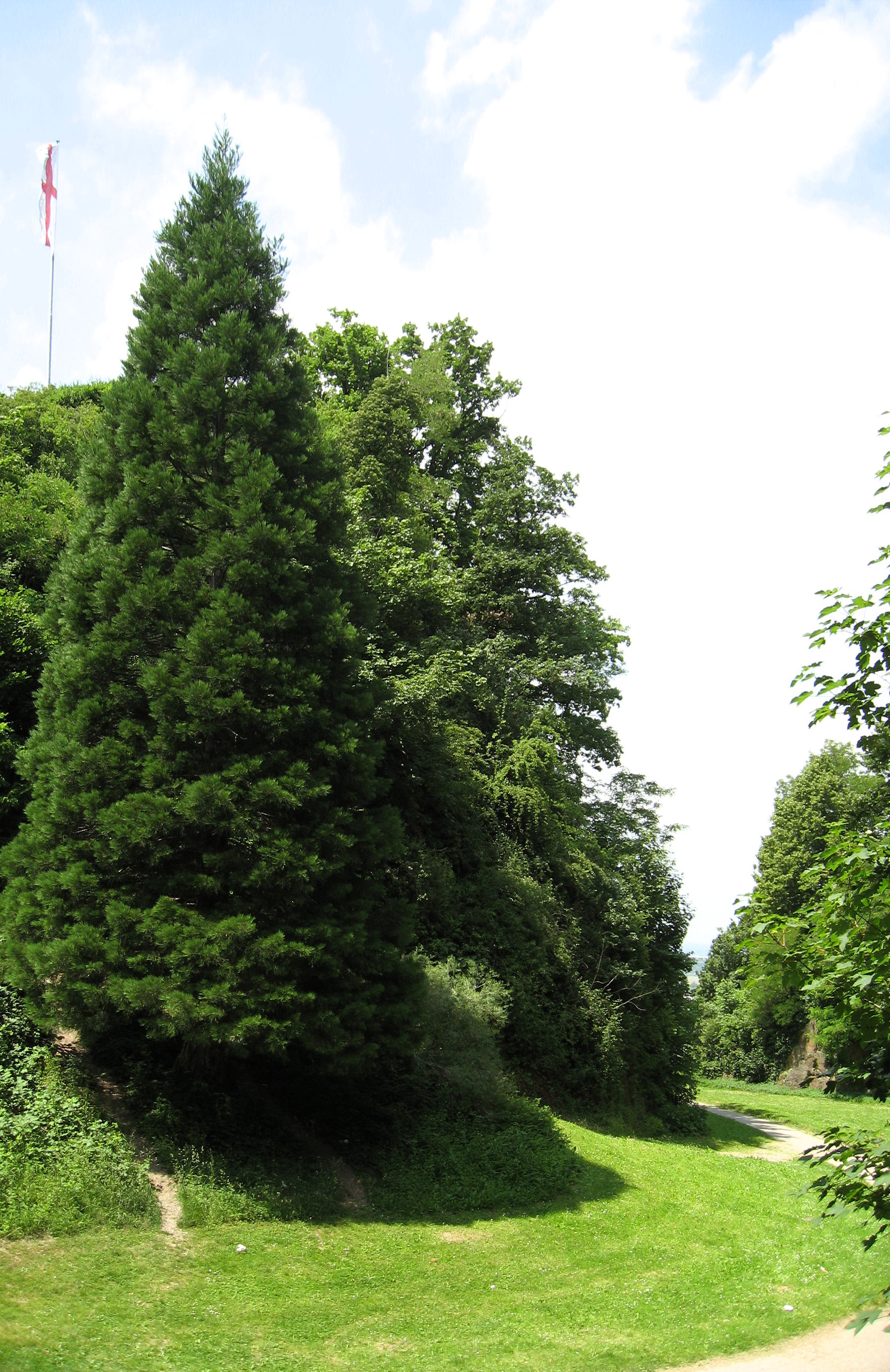 The remains of former castles on Freiburg's Schlossberg. The heap of rubble now carries a visitors platform. Left the partly filled frontal ditch as protection against the mountainside. A large chunk of the steep rock face had to be cut out.